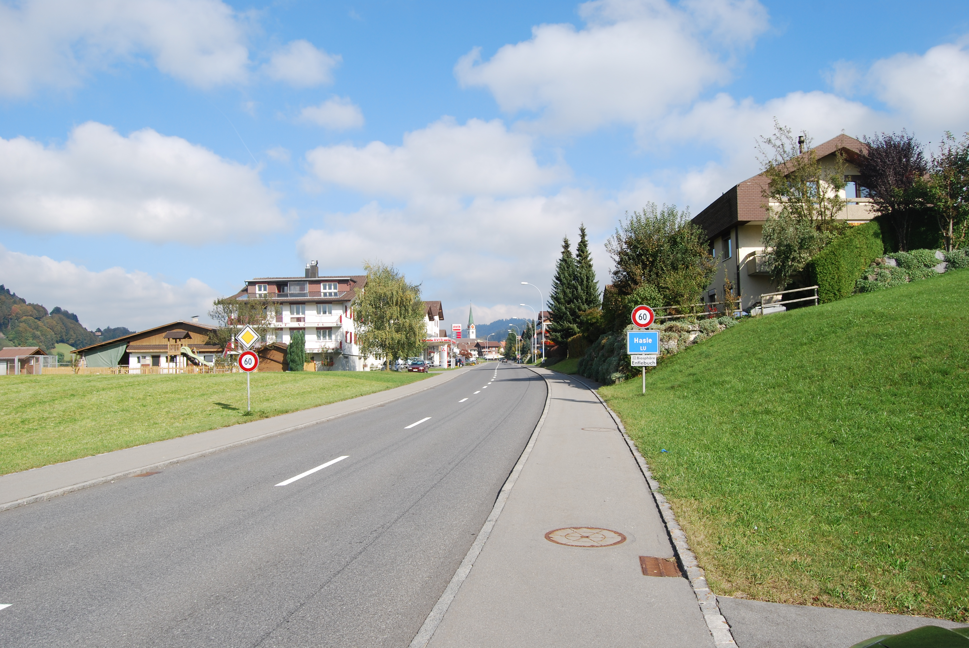 Hasle, canton of Luzern, SwitzerlandEsperanto: Hasle, Kantono Lucerno, Svislando